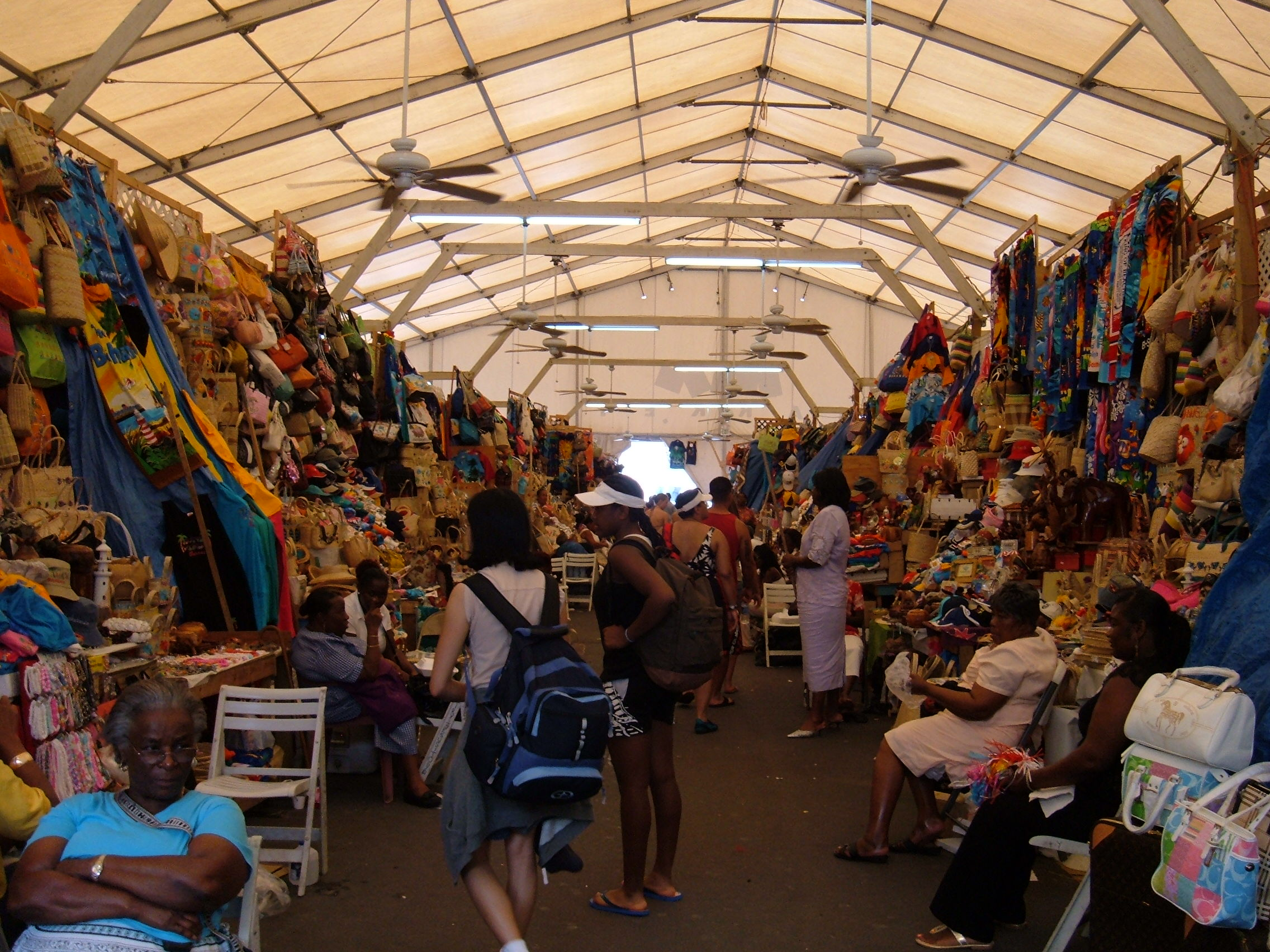 The straw market in Nassau, The Bahamas.